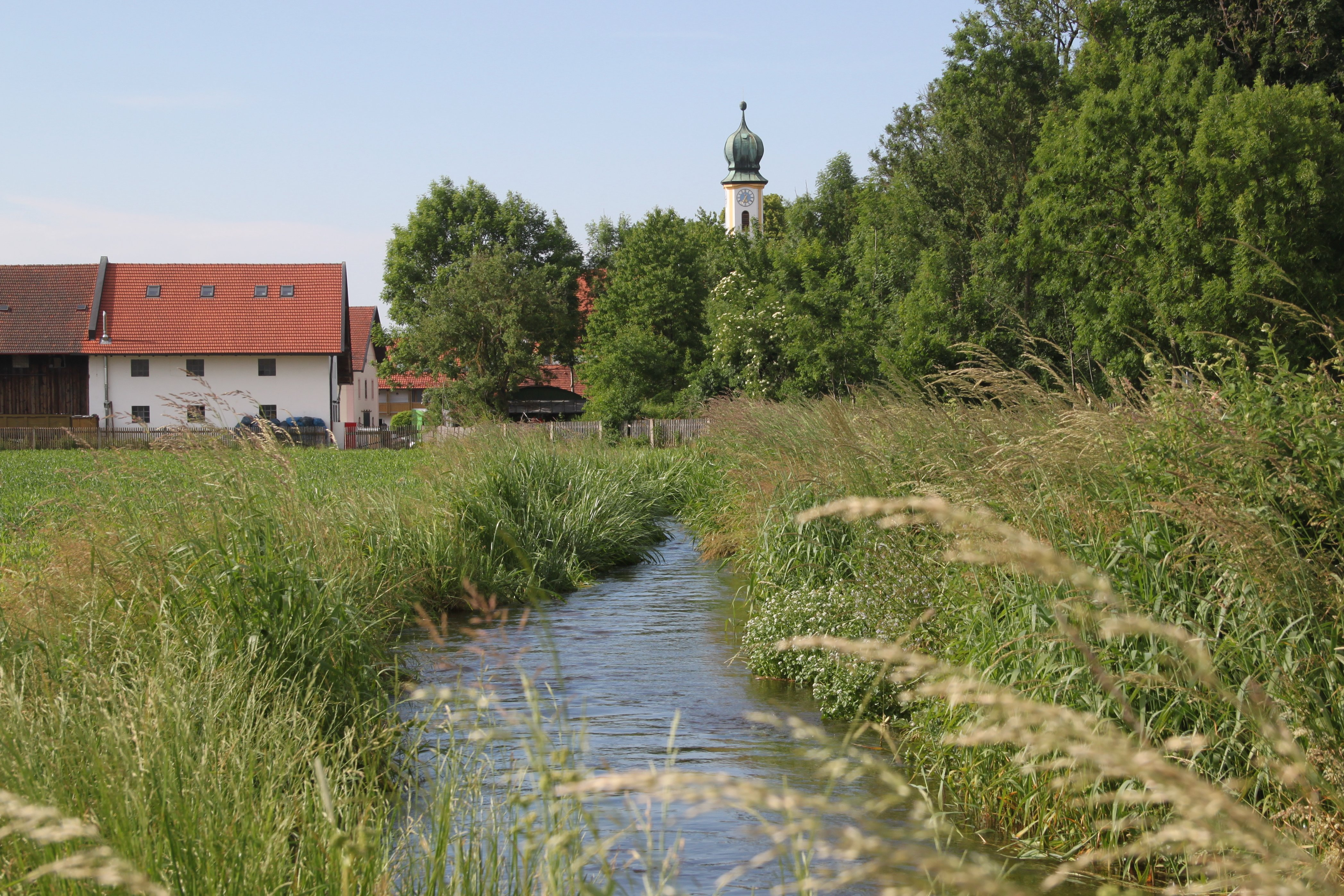 Unterbiberg: View from the south with Hachinger Bach (Haching Stream) (front), former Finck's model farm (left) and St George church (back).